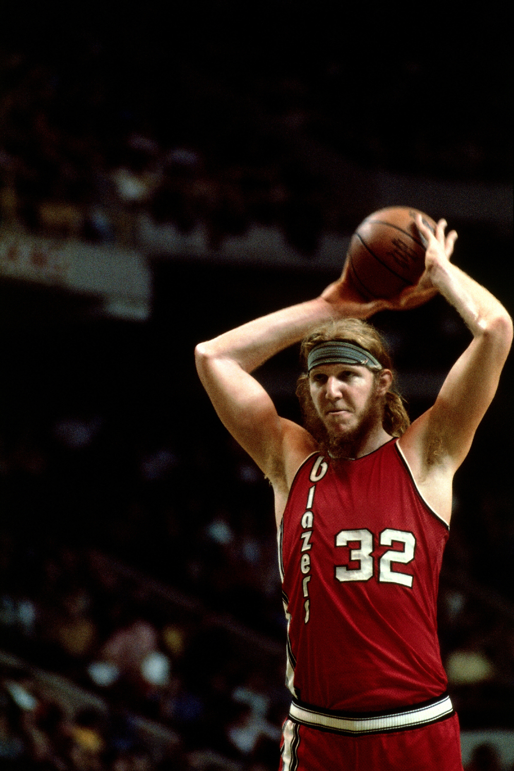 Professional basketball player Bill Walton